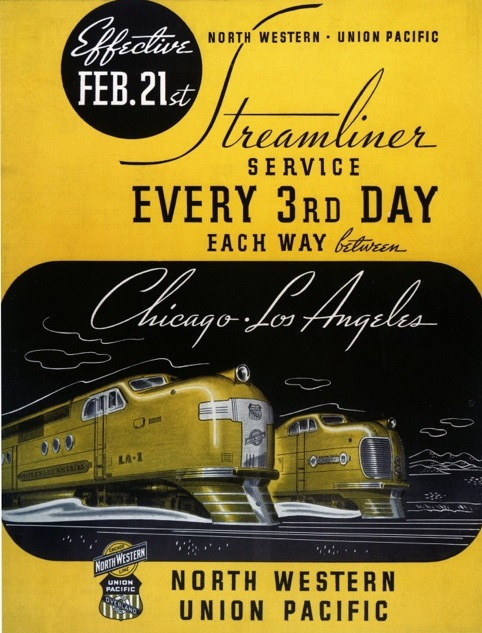 Chicago & North Western / Union Pacific promoting their "City of Los Angeles" Streamliners